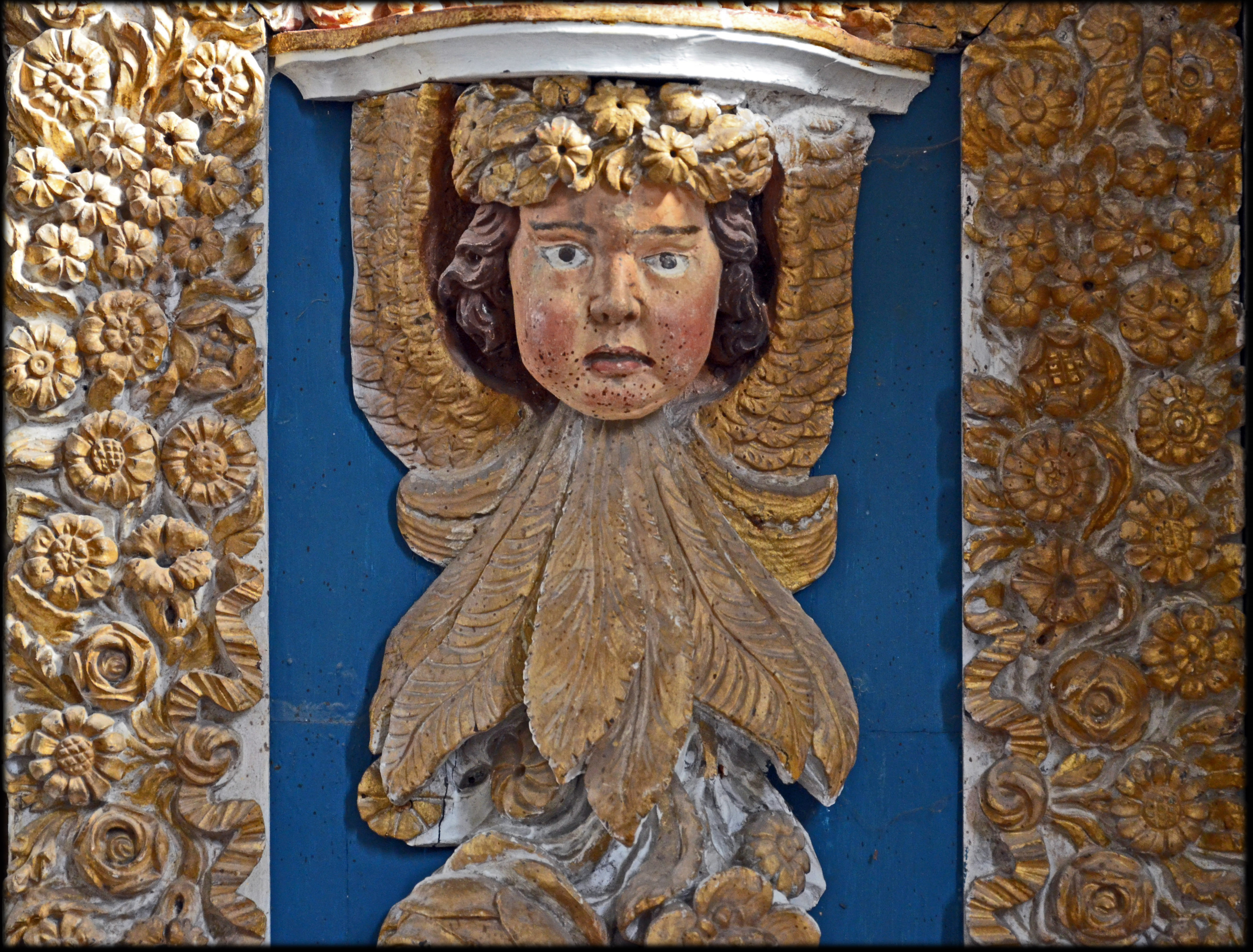 Inside of the church of Saint-Derrien (in common Commana, located in Brittany in western France). The south transept houses the "altar of the Five Wounds." At the bottom of the church, a baptistery basin of stone is topped by a high dai including wood carvings decorated with feminine virtues (temperance, justice ...).